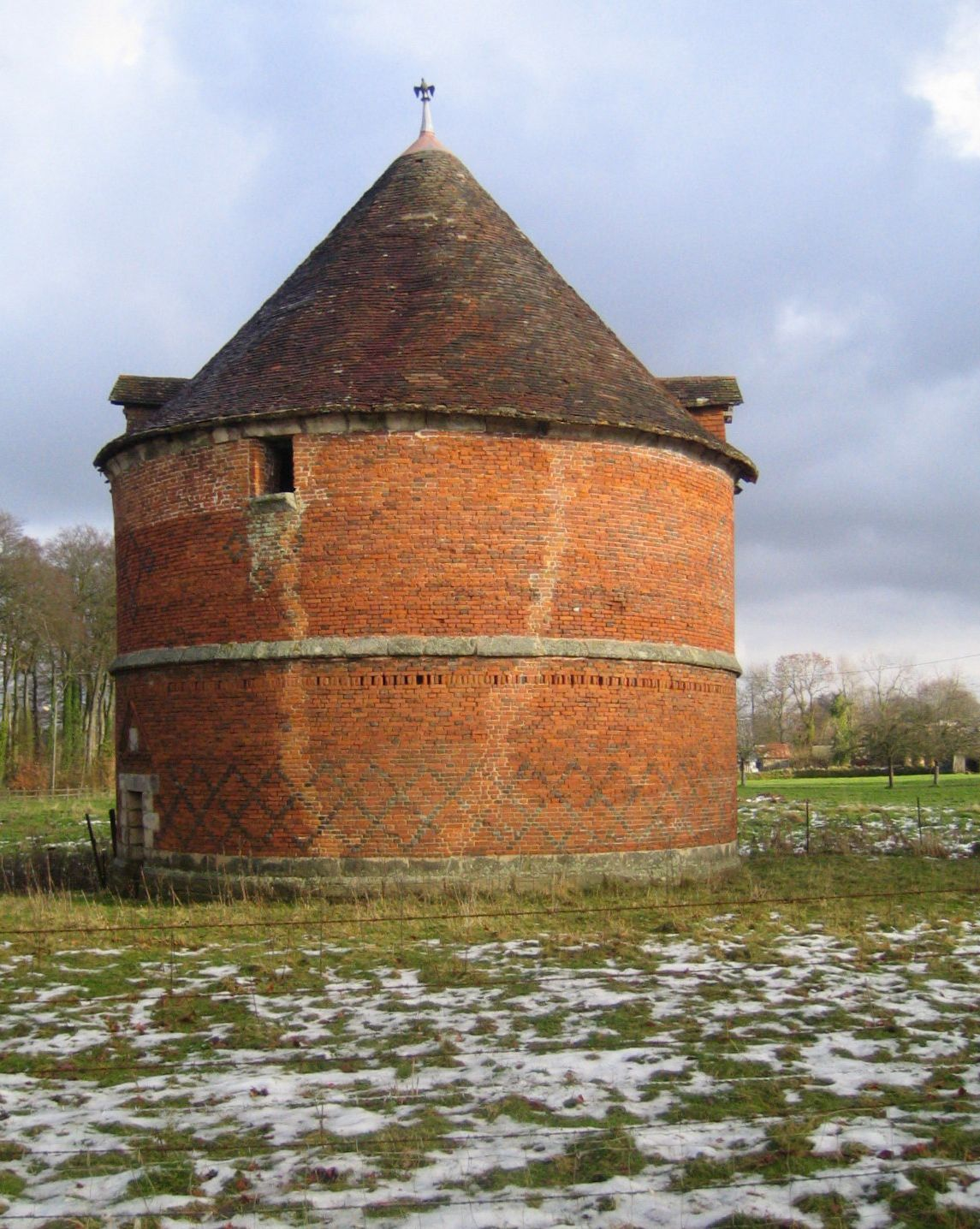 Crasville-la-Rocquefort, Seine-Maritime, Haute-Normandie, France. Dovecote.